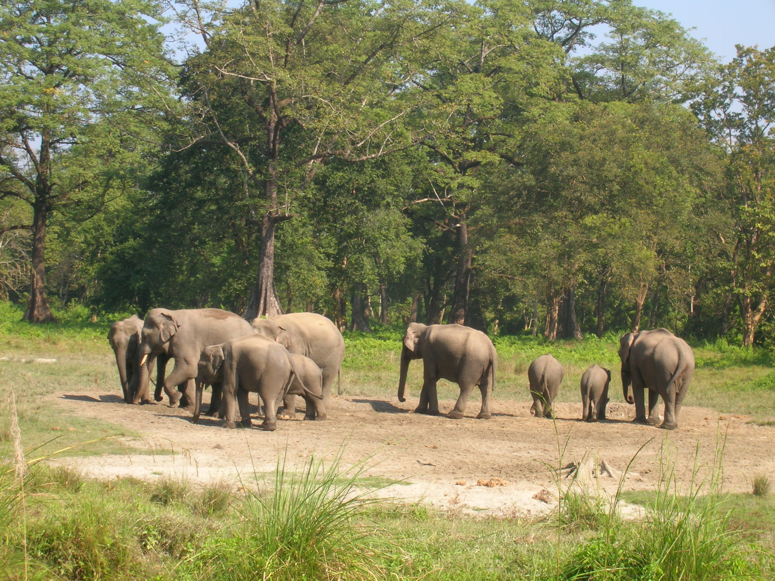 Wild elephants grazing at Jaldapara Wildlife Sanctuary, Jalpaiguri District, West Bengal.